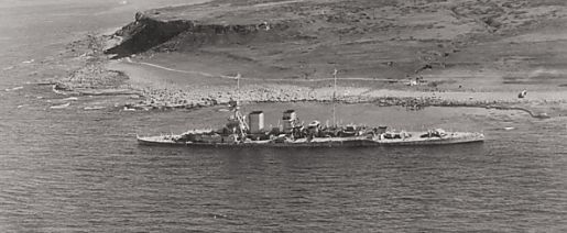 This photo shows HMS Raleigh wrecked on Point Amour, Forteau Bay, Labrador, Canada, where she grounded on August 8 1922. She was stripped & used as a firing target, the wreck being demolished in September 1926.